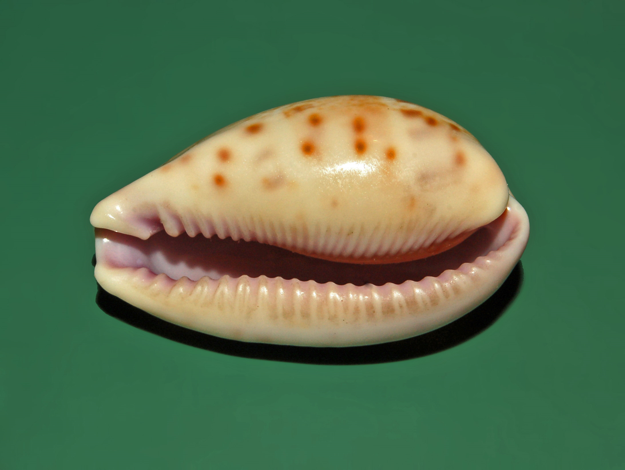 Contradusta walkeri - Philippines